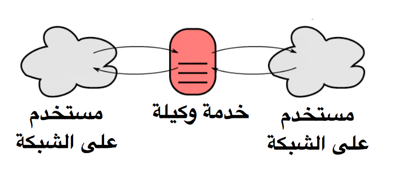 proxy server Arabic